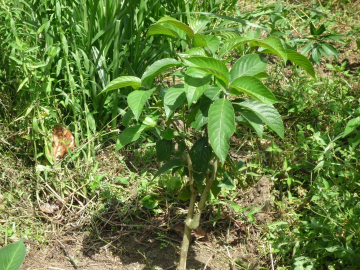 Quiebra barrigo (Trichanthera gigantea)